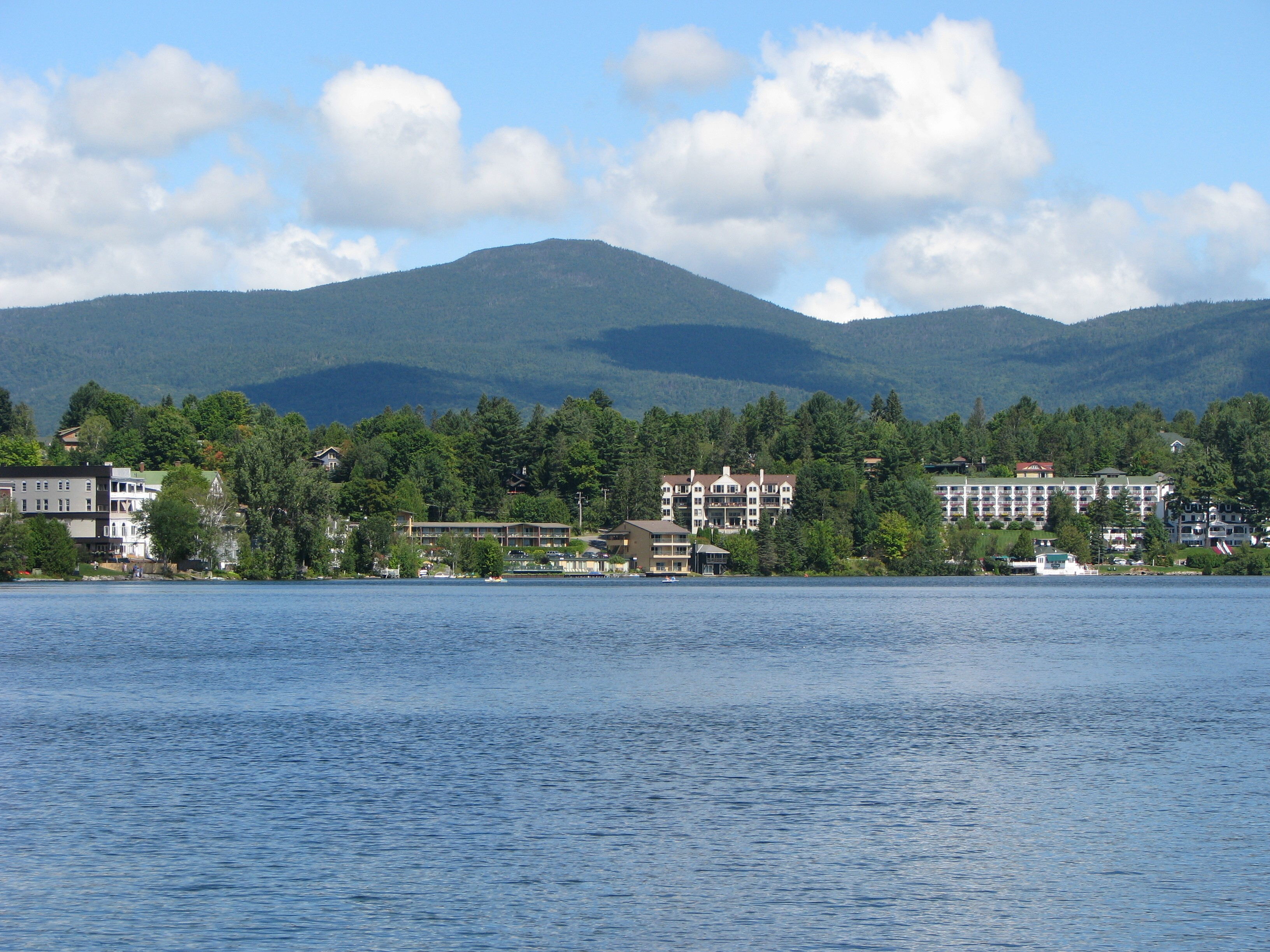 Mirror Lake in Lake Placid, NY. Looking north from the public beach on the south shore.